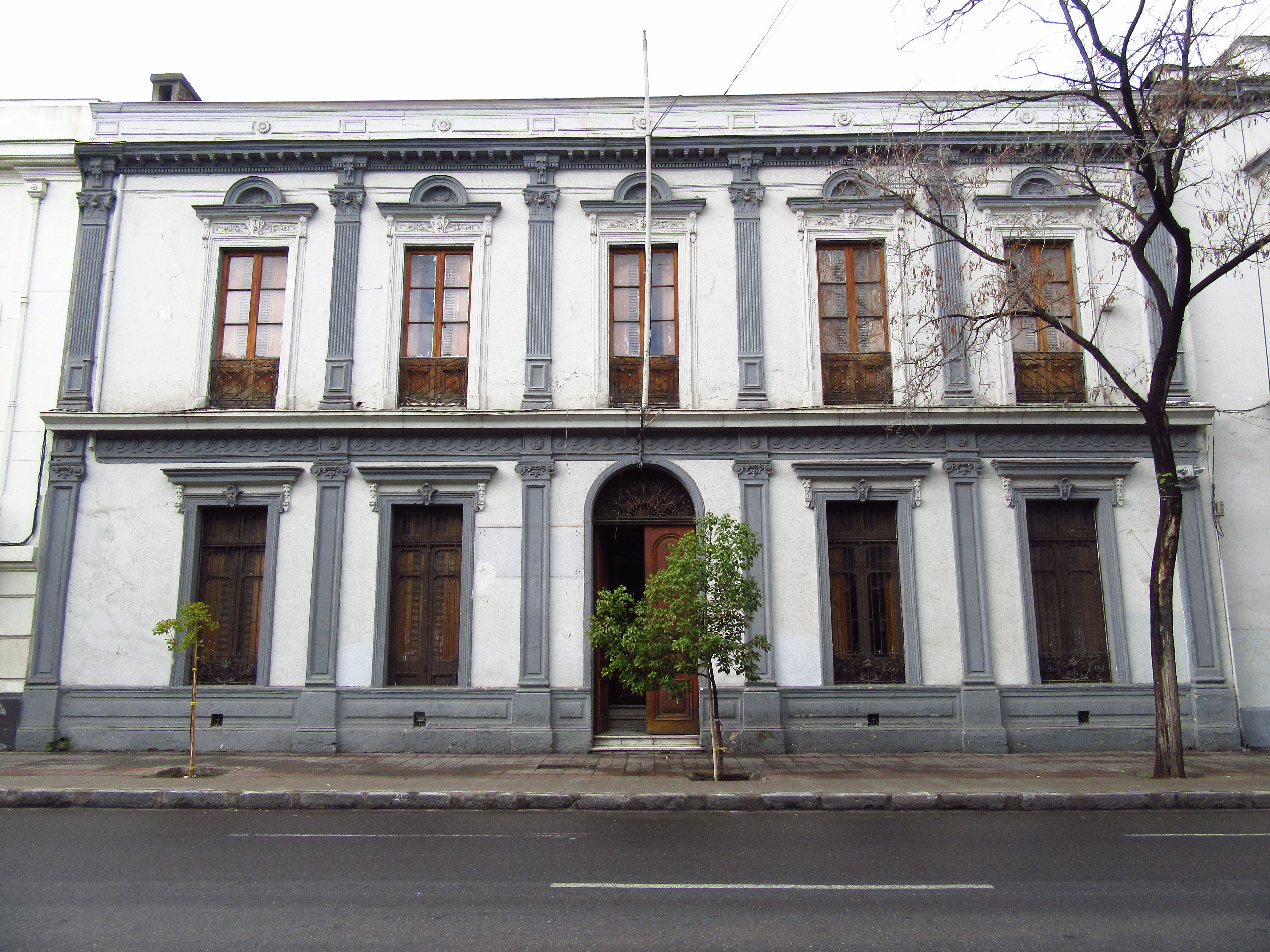 2017 in Santiago de Chile